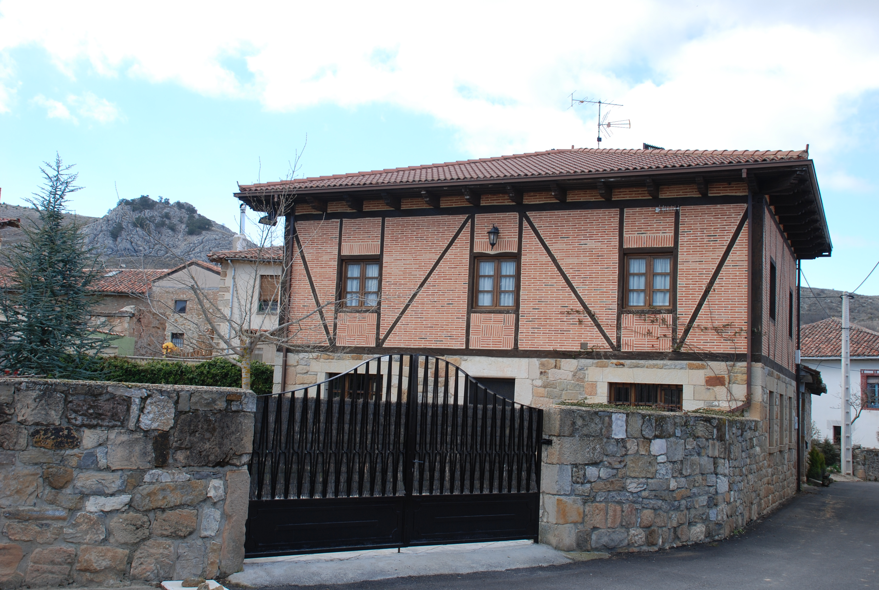 View of a house in Barrio de San Pedro (Palencia, Castile and León).